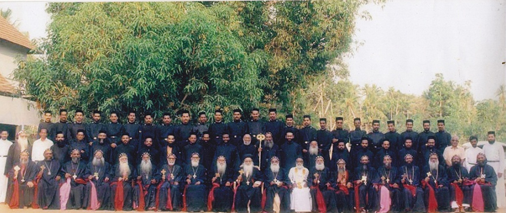 The Head of the Malankara Orthodox H.H. Baselios Marthoma Mathews II and the entire Episcopal Synod Members and the Staff and Students of the Orthodox Theological Seminary jointly honored the Great Guru of Gurus Rev. Dr. V.C. Samuel in 1990